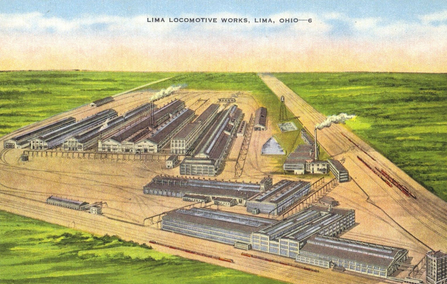 Postcard of the Lima Locomotive Works in Lima, Ohio.